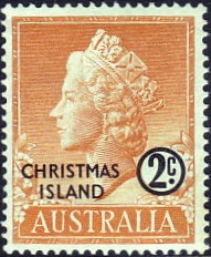 The first postage stamp of Christmas Island, 2¢, 1958, Queen Elizabeth II definitive.